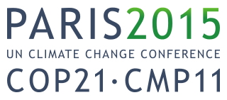 Text logo of the 2015 United Nations Climate Change Conference held in Paris.